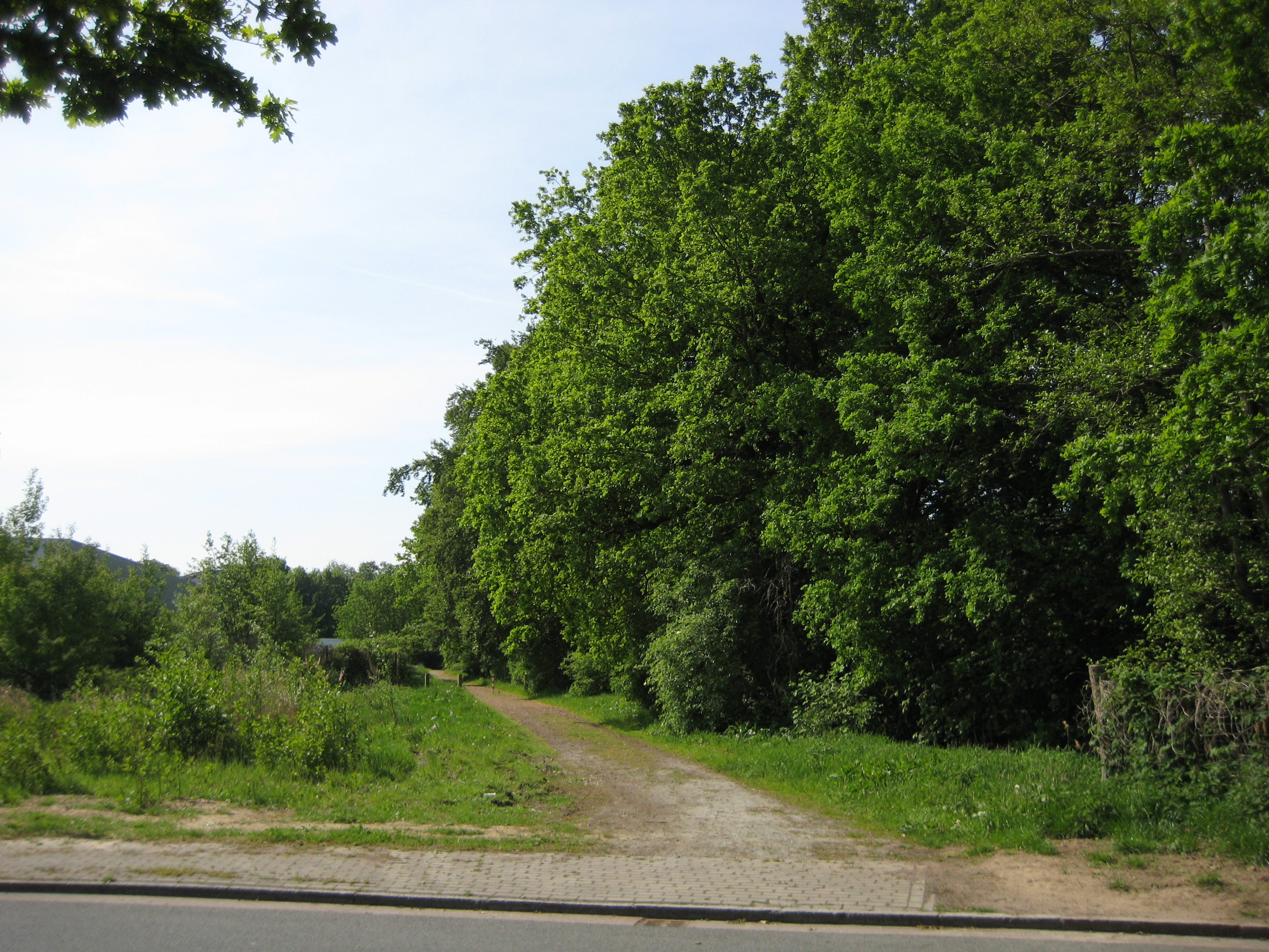 Northern access to natural reserve "Krietes Wald (Im Holze)", Bremen (Germany)